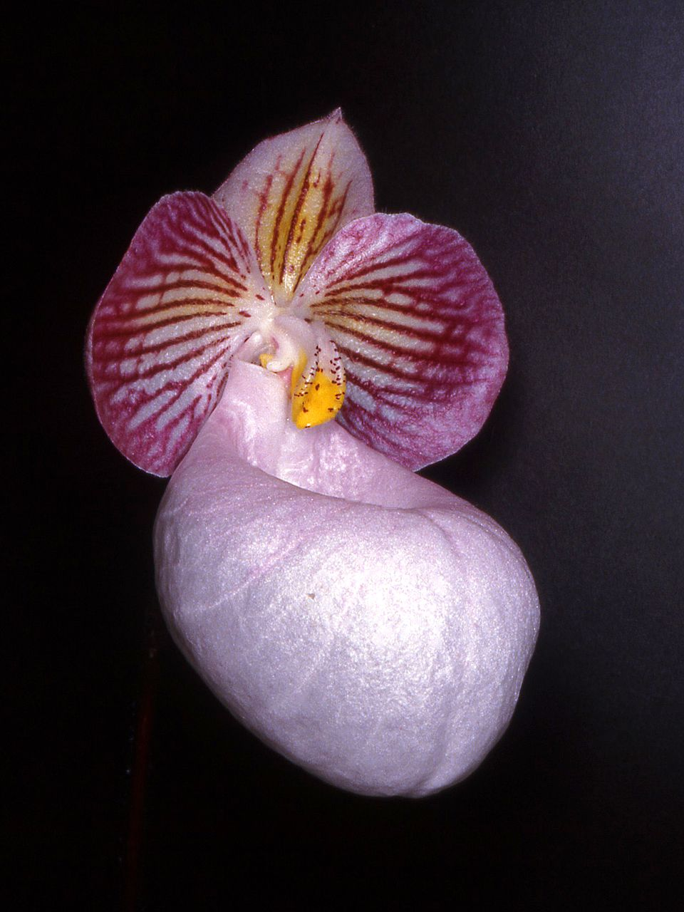 Paphiopedilum micranthum - flower